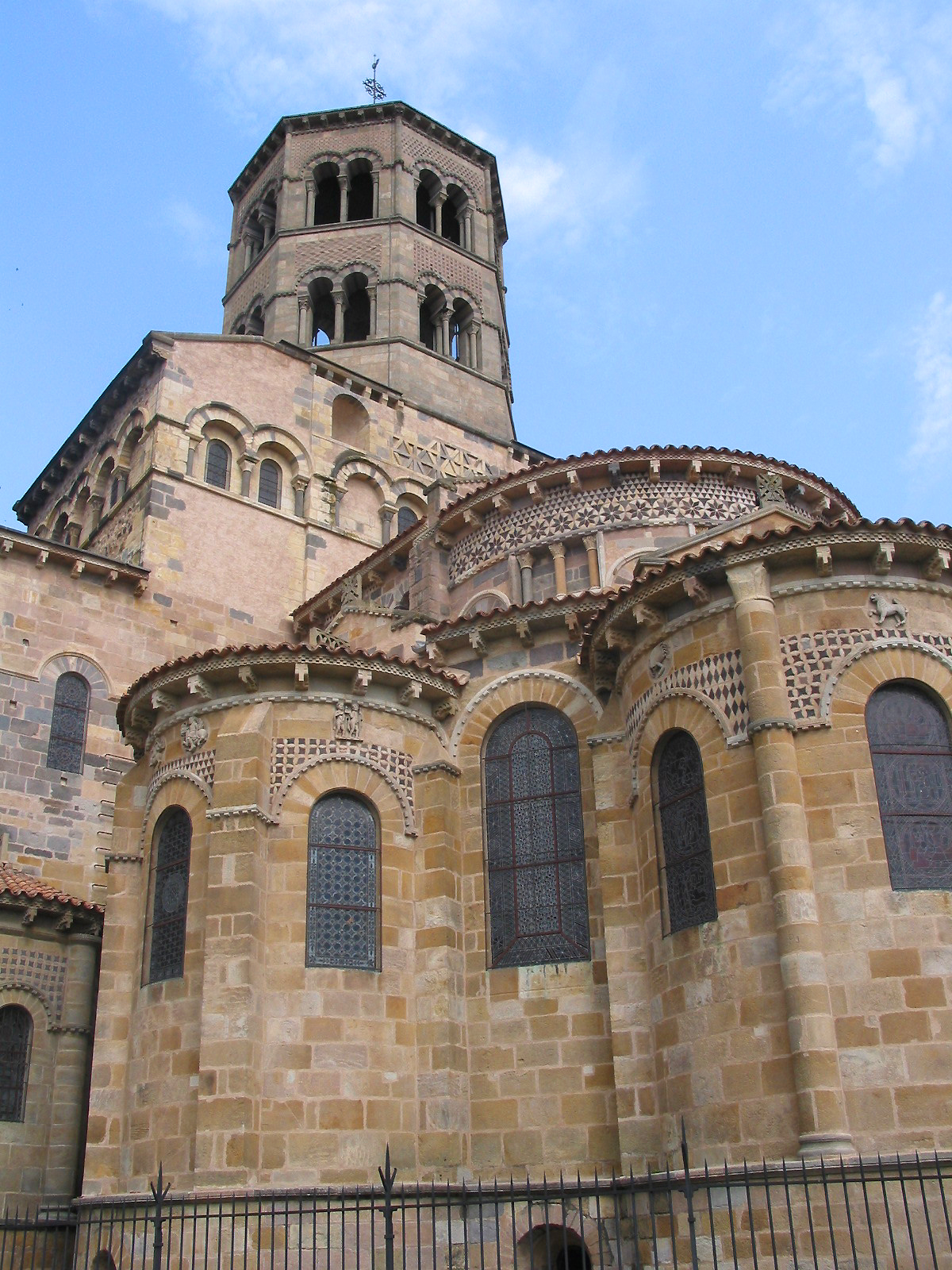 Issoire (Puy-de-Dôme - France), apse, transept and tower of the church of Saint Austremoine church (XIIth century).